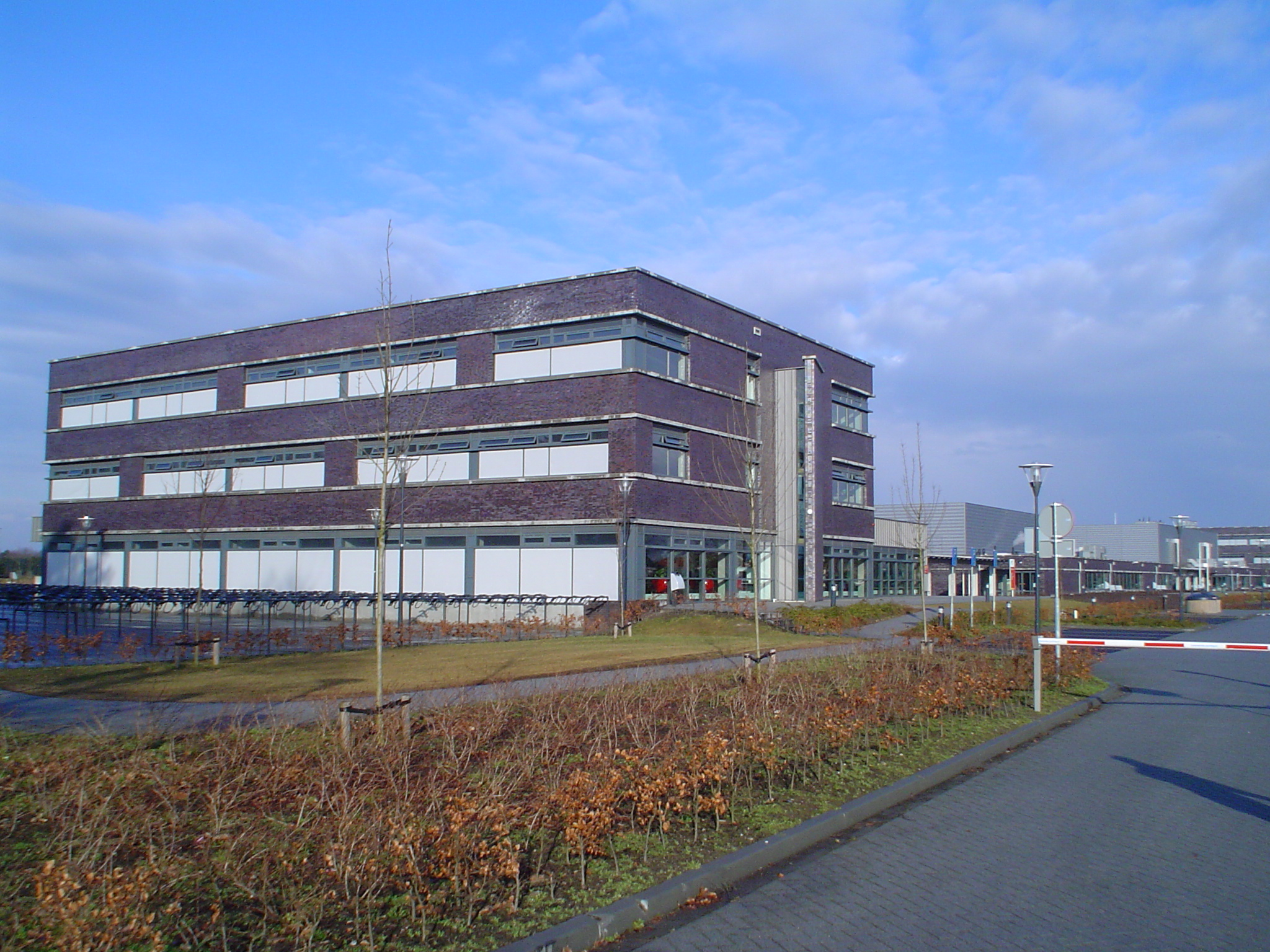 The Kempen Campus in Veldhoven, home of the Sondervick College.